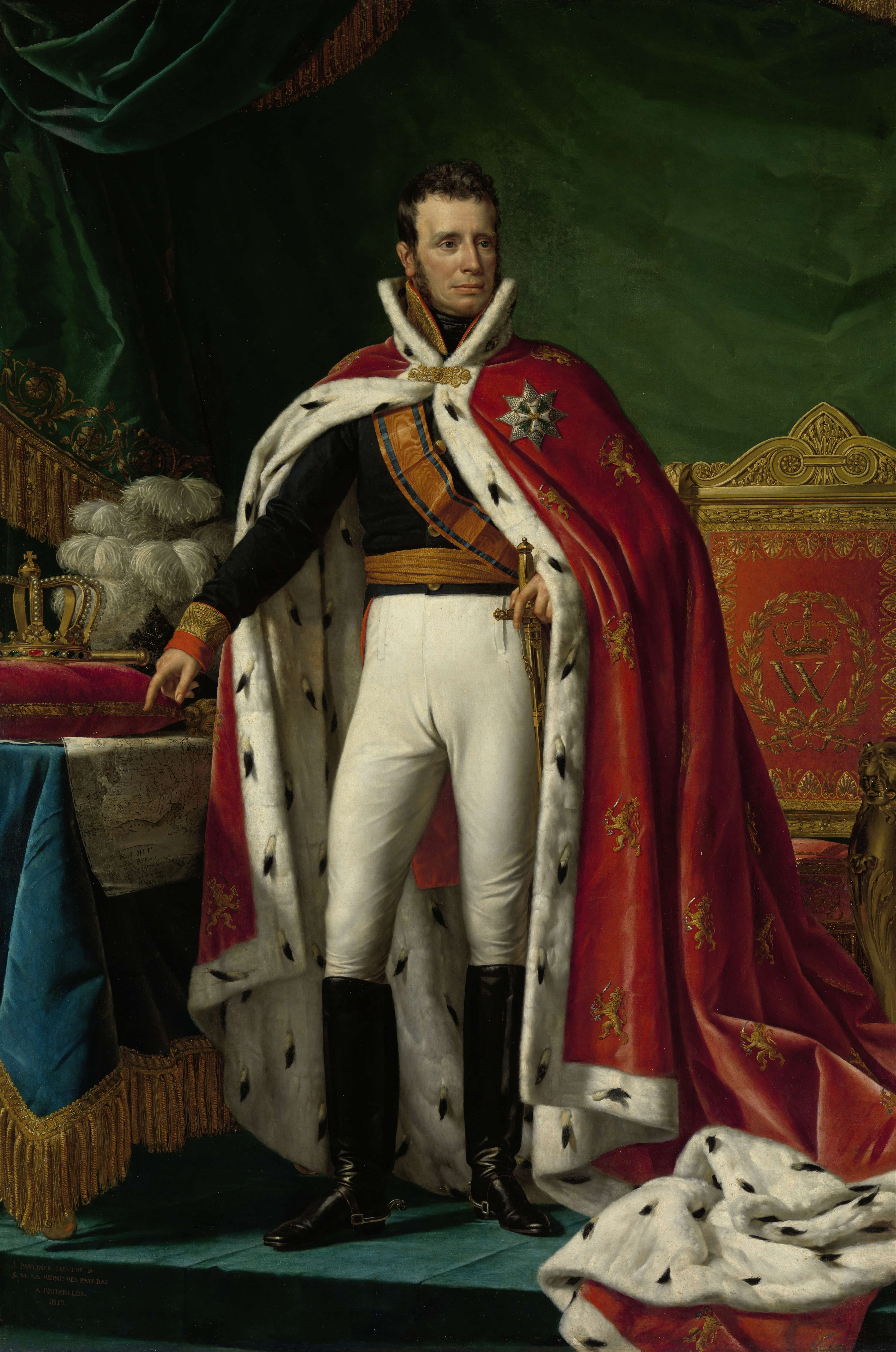 Portrait of William I (1772–1743) as King of the United Kingdom of the Netherlands. Standing, at full-length, in the gala uniform of a general. Over his right shoulder the sash of the Military William Order. Over his uniform wearing a red robe lined with ermine. To the right the royal throne, to the left a table with on it the map of parts of Java (Bantam, Jacatra and Cheribon) in modern-day Indonesia, and also a pillow with crown and sceptre and a hat with ostriche feathers.